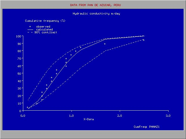 Cumulative frequency distribution (lognormal) of hydraulic conductivity of the soil (X-data) showing a large spatial variation